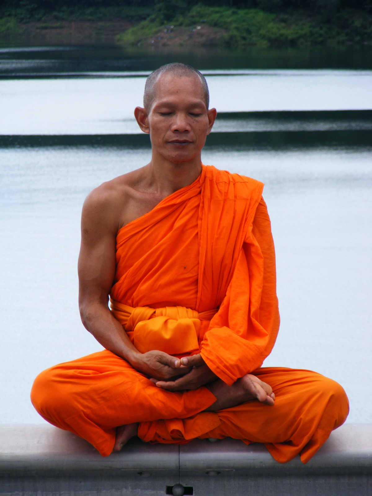 Phra Ajan Jerapunyo-Abbot of Watkungtaphao in Sirikit Dam Location: Sirikit Dam Thailand.